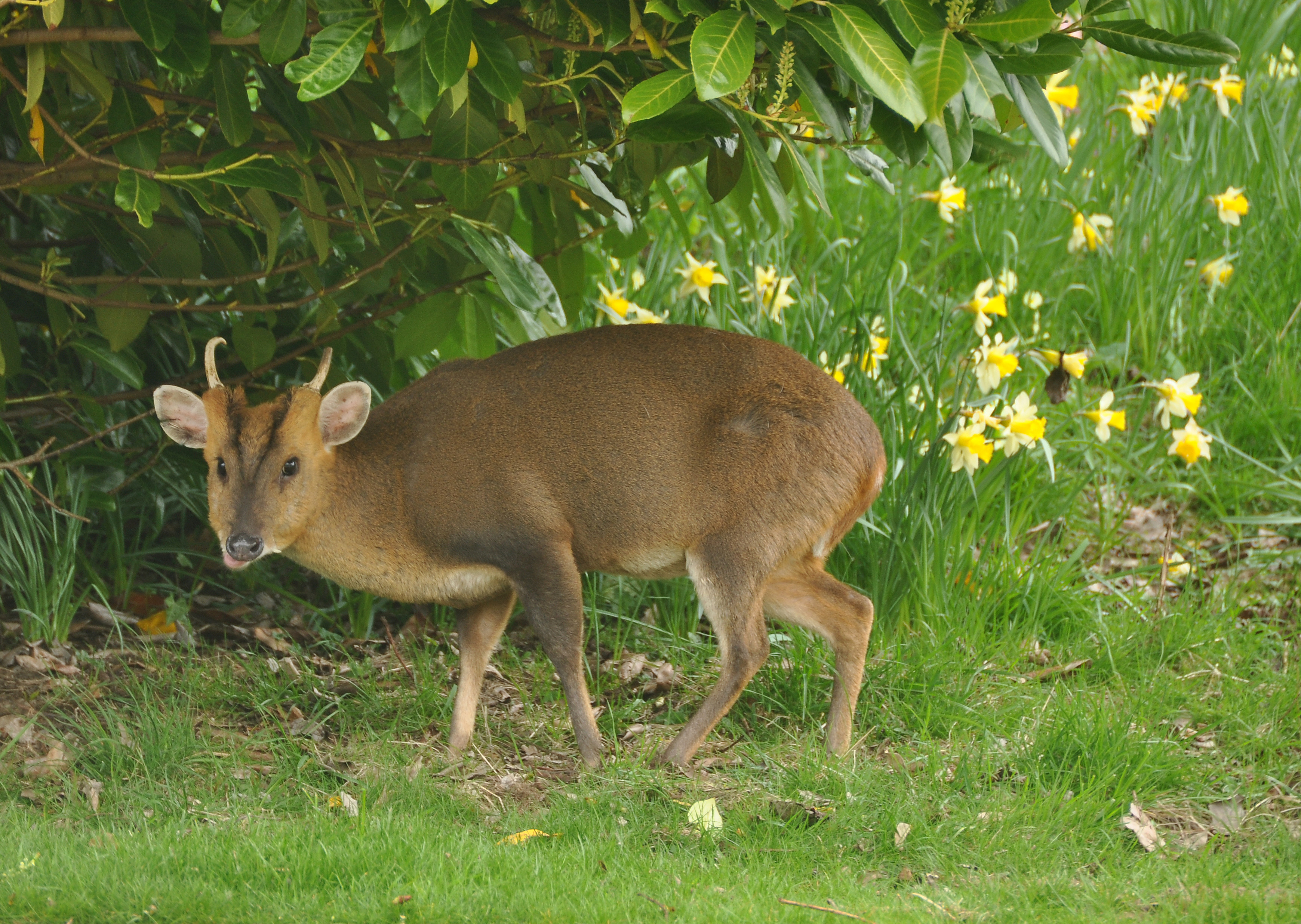 A Reeve's muntjac deer (Muntiacus reevesi) in the grounds of Dumbleton Hall, Gloucestershire.